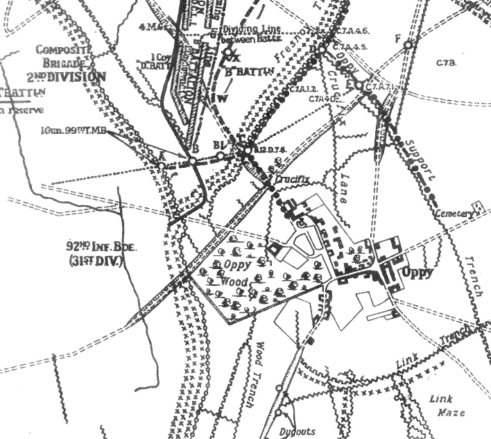 Map, Fresnoy, May 1917